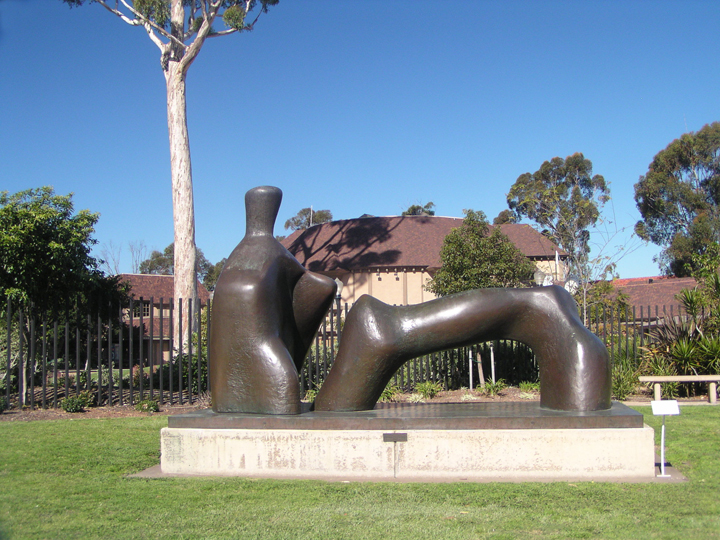 photo by Einar Einarsson Kvaran aka Carptrash 23:20, 23 October 2006 (UTC)